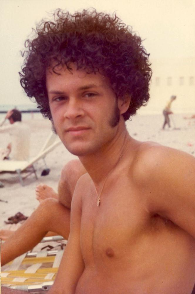 Lars Jacob with an Afro permanent against the hot climate, as released by image creator Lars Jacob Prod Place: 21st Street Beach (near his residence), Miami Beach, Florida